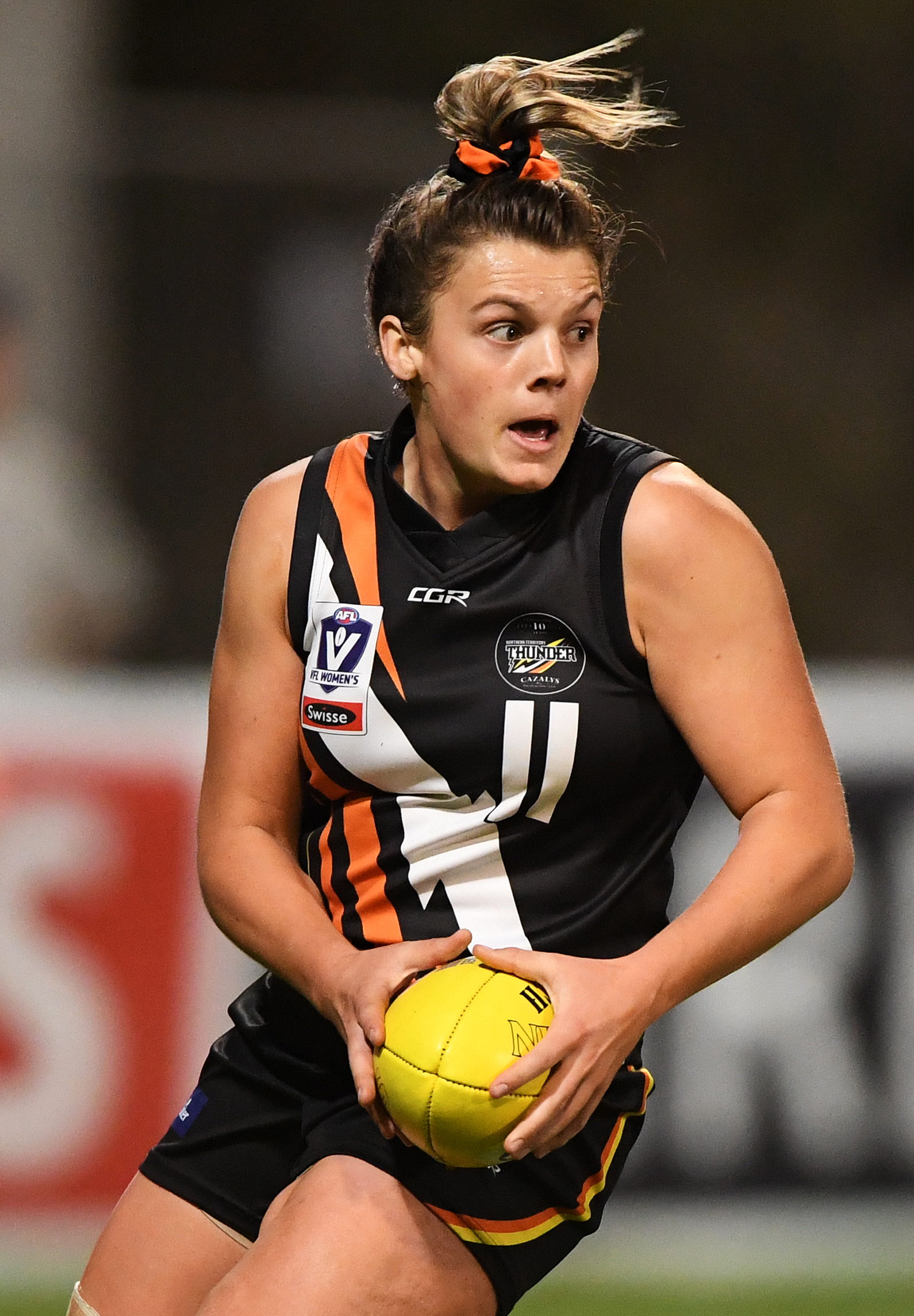 Jordann Hickey of NT Thunder during the 2019 VFLW round 11 match between NT Thunder and Casey at Traeger Park on Saturday, 20 July 2019 in Alice Springs, Northern Territory.